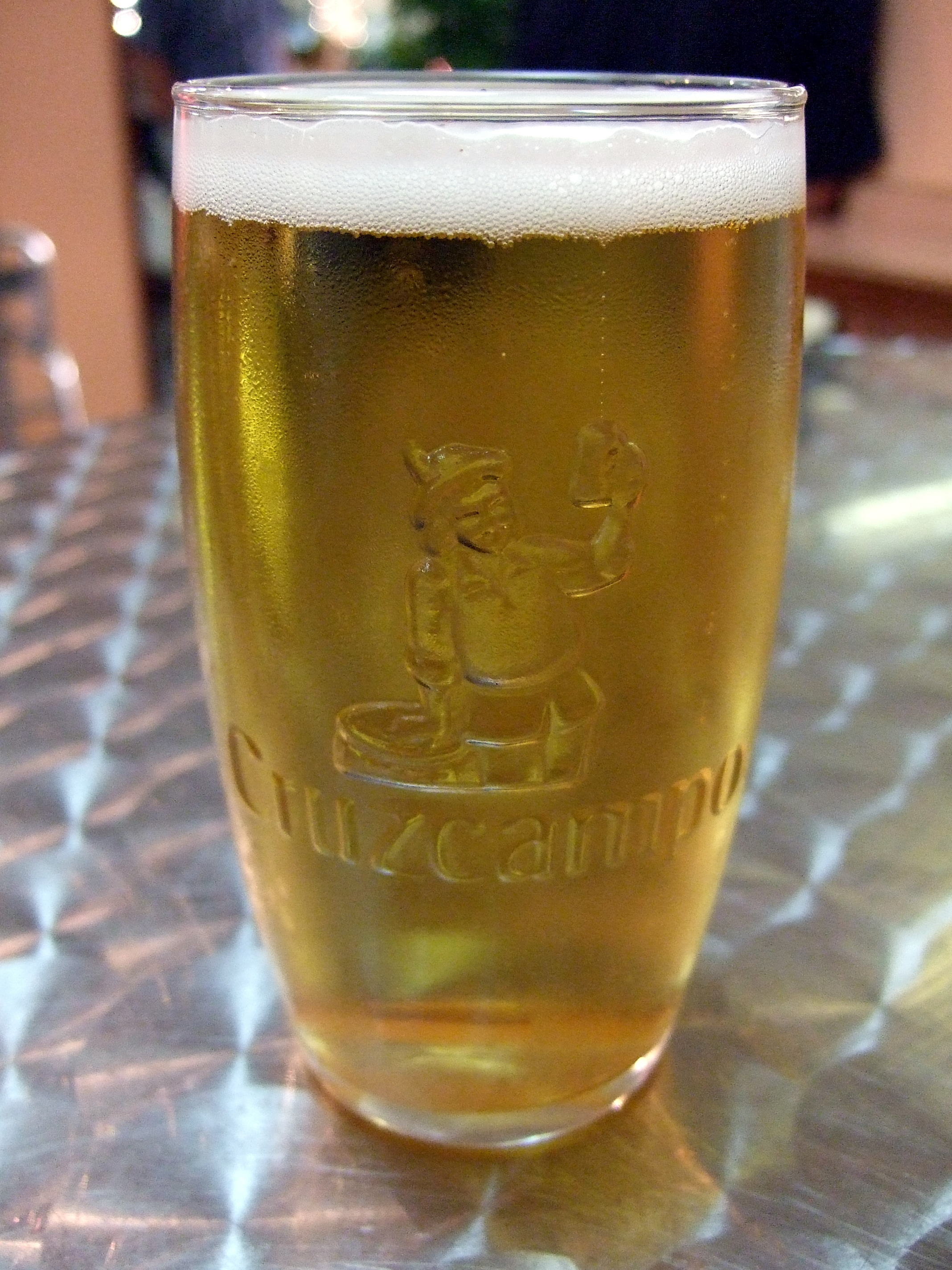 Pint of Cruzcampo beer served in an establishment in Gibraltar.